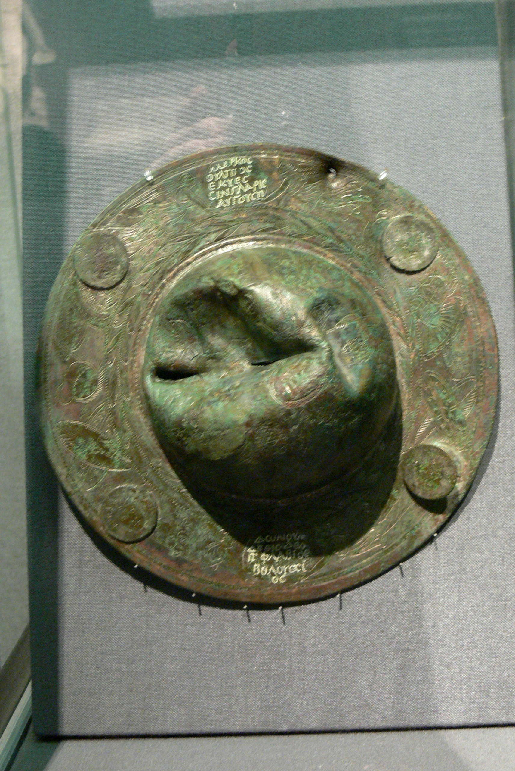 Museum Carnuntinum ( Lower Austria ). Shield boss ( 2nd century ) of Marcus Ulpius, eques singularis of the emperor.